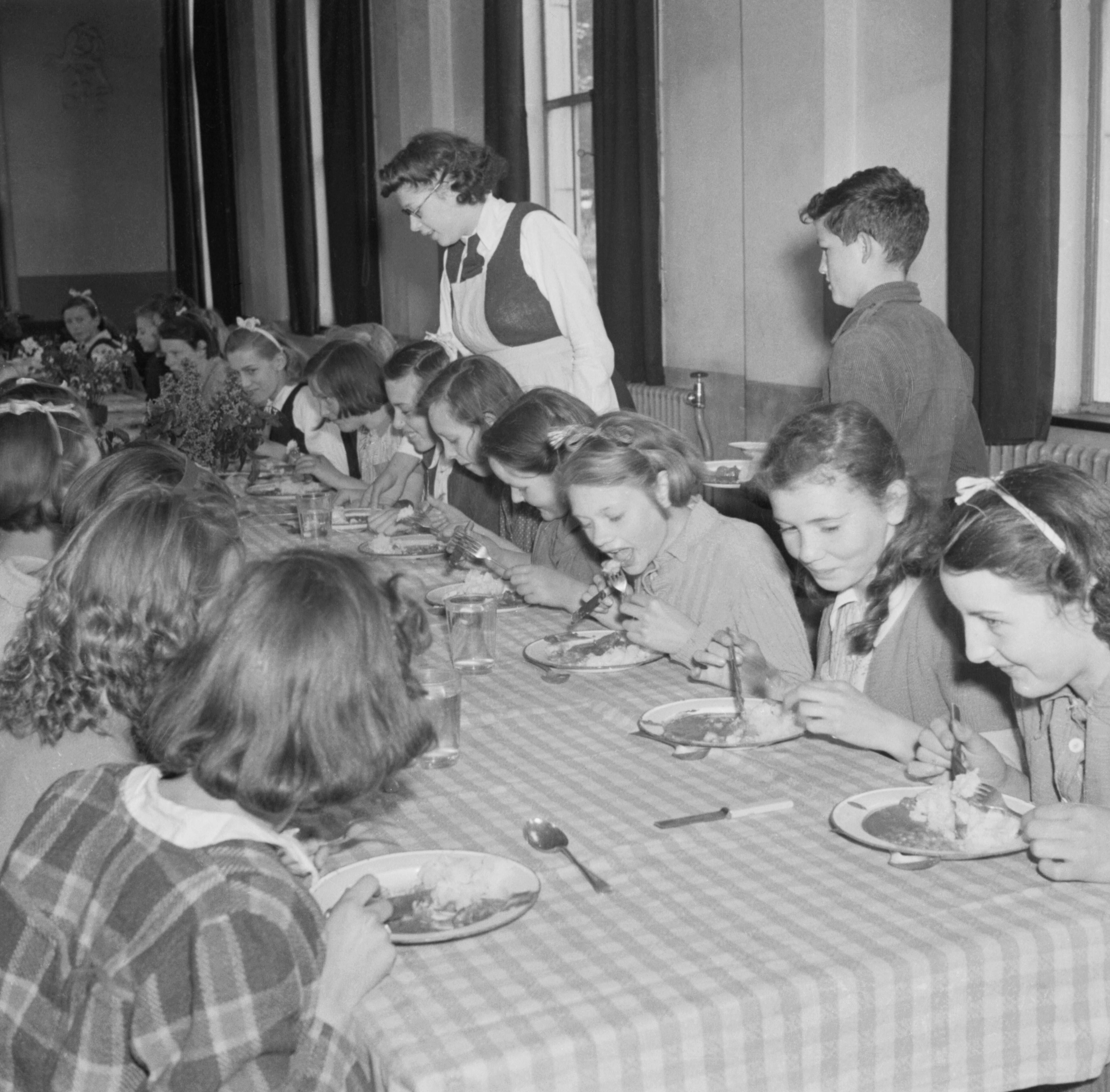 Children having lunch at Baldock County Council School in Hertfordshire during 1944. Children enjoy lunch at Baldock County Council School. The original caption states that 200 children eat a meal at school every day. The children set the table and serve the food to each other.